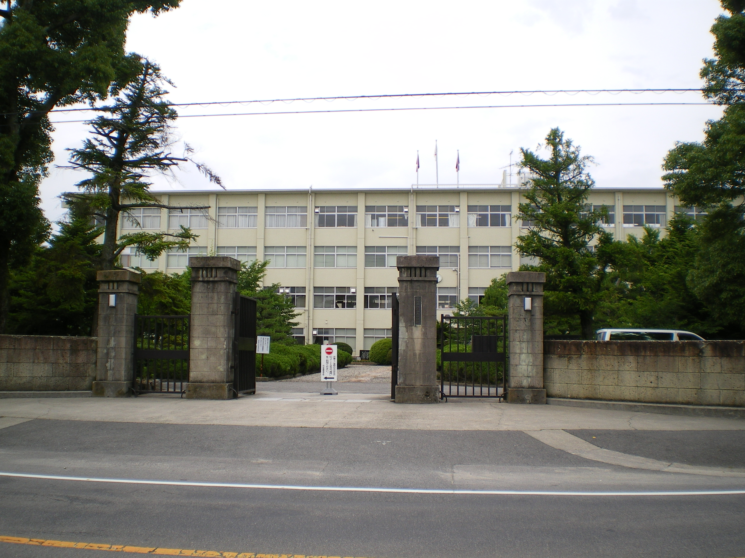 Aichi Prefectural Kariya Upper Secondary School (High School)